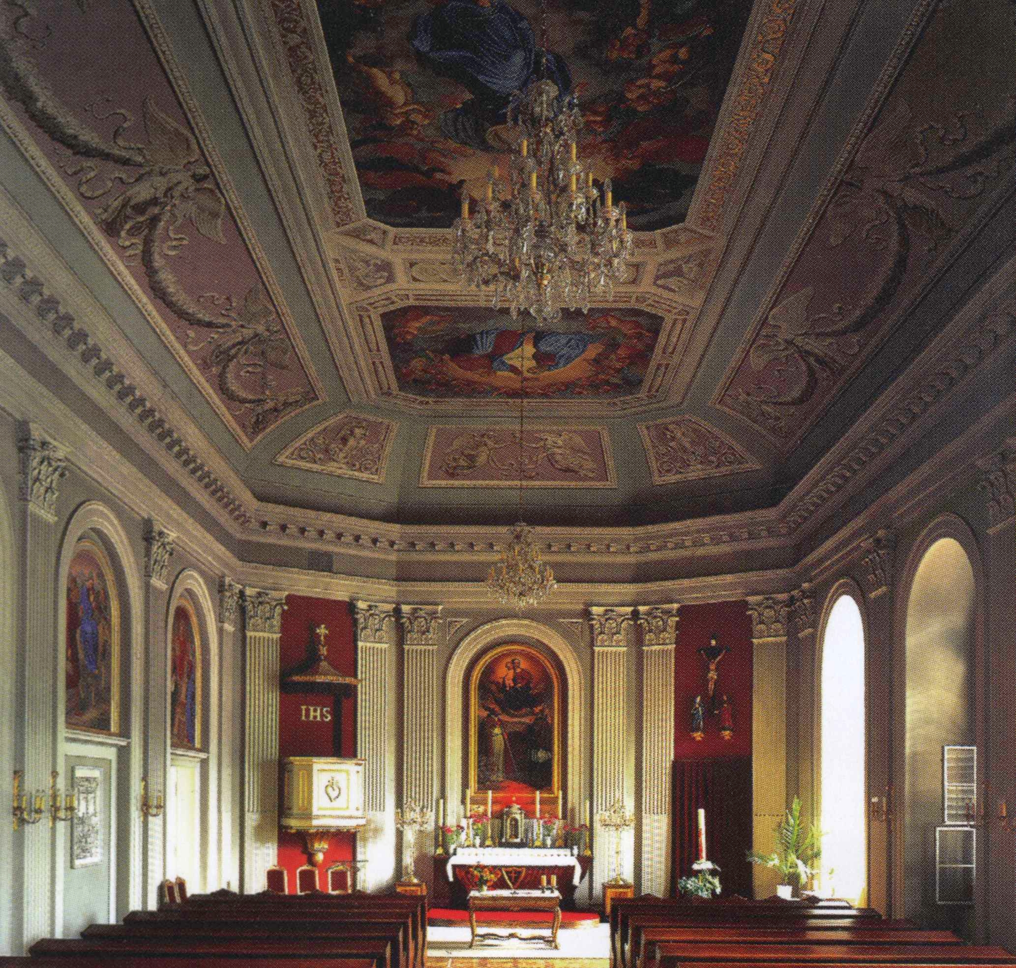 Catholic chapel of Pillnitz Castle